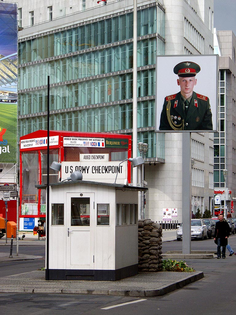 Berlin-Checkpoint Charlie Memorial Site 2004 - West → East